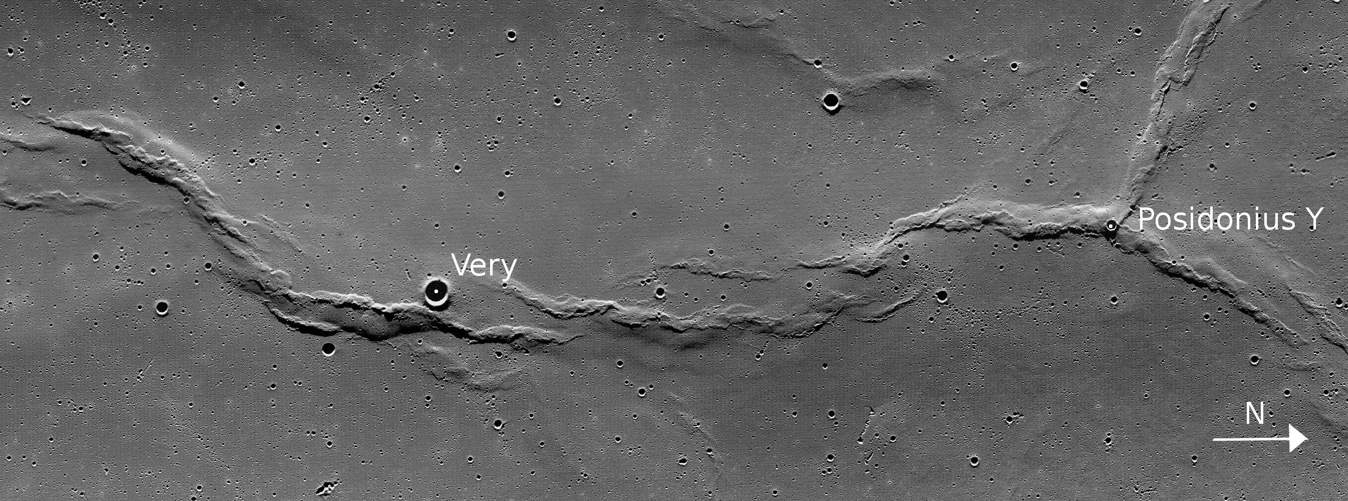 Dorsa Smirnov with crater Very (North is on the right; detail of LROC - WAC global moon mosaic)